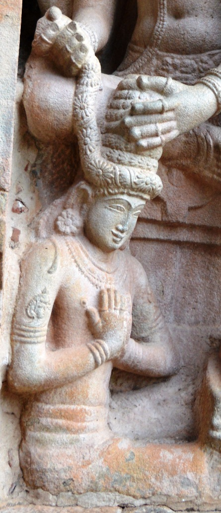 Rajendra Chola being crowned with flower garlands by Shiva